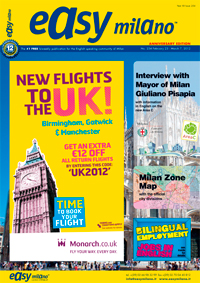 Cover of Easy Milano - Issue 246